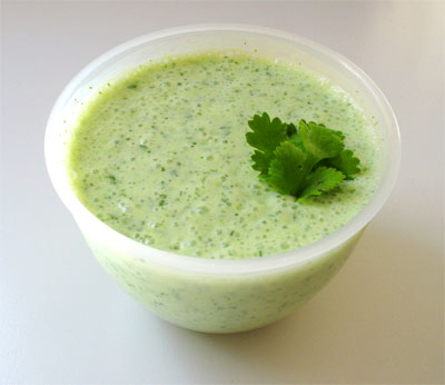 Photograph by Elisabeth Nara.